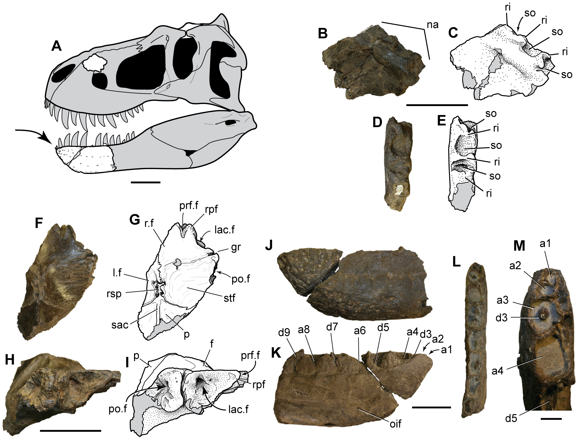 Nanuqsaurus hoglundi, holotype, DMNH 21461. A. Reconstruction of a generalized tyrannosaurine skull, with preserved elements of holotype shown in white. Arrow points to autapomorphic, reduced, first two dentary teeth. B–E. Photographs and interpretive line drawings of right maxilla piece in medial (B, C); and dorsal (D, E) views. F–I. Photographs and interpretive line drawings of partial skull roof in dorsal (F, G); and rostrolateral (H, I) views. J–M, partial left dentary in lateral (J); medial (K); dorsal (L) views; and close-up of mesial alveoli in dorsal (M) views. Abbreviations: a, alveolus, with number indicating position in tooth row; d, dentary tooth, with number indicating position in tooth row; f, frontal; gr, orbital groove; lac.f, lacrimal facet of frontal; l.f, left frontal; na, nasal contact surface; oif, oral intramandibular foramen; p, parietal; po.f, postorbital facet of frontal; prf.f, prefrontal facet of frontal;. r.f, right frontal; ri, ridge separating sockets in nasal articulation of maxilla; rpf, rostral process of frontal between prefrontal and lacrimal facets; rsp, rostral spur of parietal; sac, sagittal crest; so, socket for nasal articulation of maxilla; stf; supratemporal fossa. Gray fill indicates missing bone or broken bone surfaces and cracks. Scale bar in A equals 10 cm. Scale bars in B–L equal 5 cm. Scale bar in M equals 1 cm.